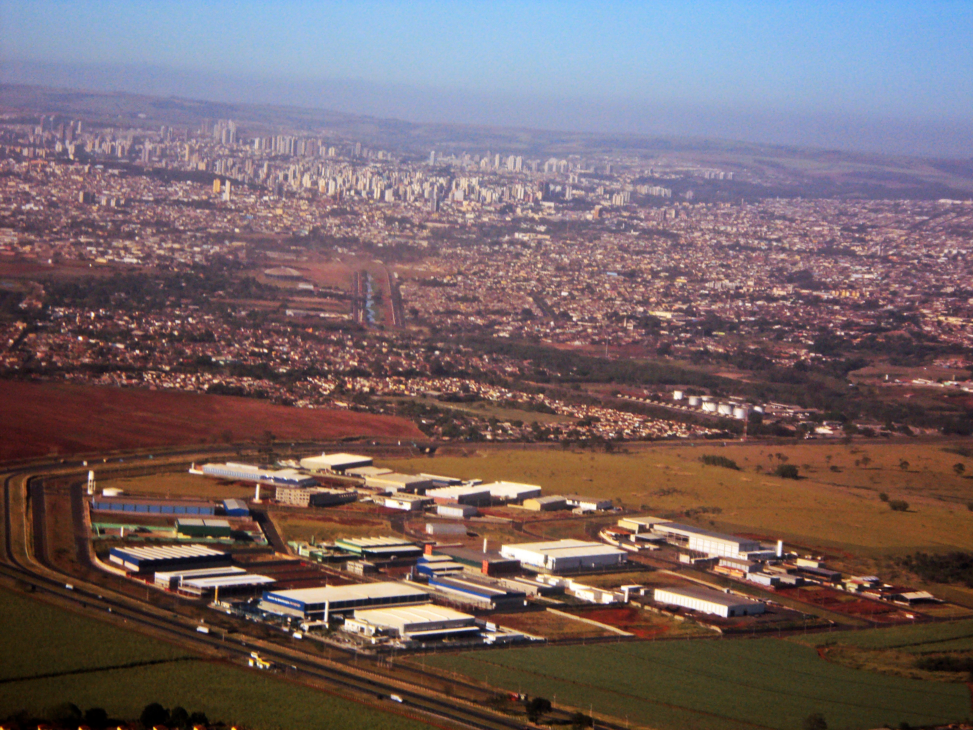 Aerial view of the business district of Ribeirão Preto, in the downtown area to the bottom